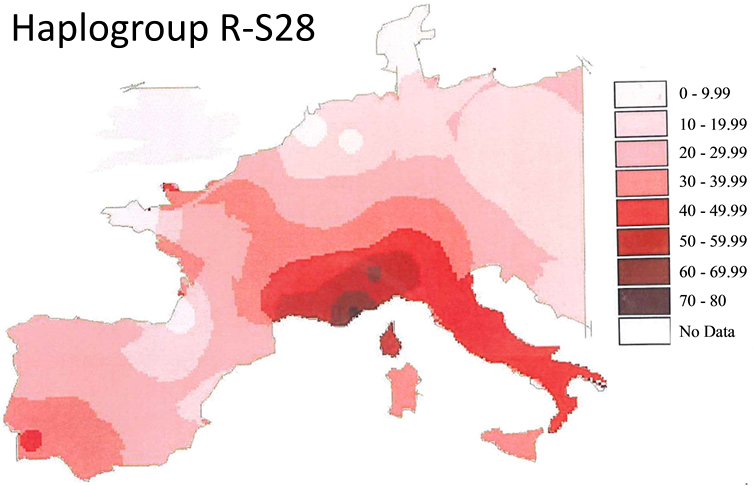 Isofrequency map of haplogroup R-S28 in West-Europe. Isofrequency lines indicate the artificial limits (of the areas with various nuances of green) between the decreasing S28 values from the peak. Starting from a zone of high S28 concentration in southwestern France and in the north of Italy, frequency of this haplogroup decreases progressively towards north, west and east in the rest of West-Europe. The most elevated value of sub-haplogroup R-S28 frequencies (71%) corresponds to Grasse in France. Elevated values of R-S28 frequencies are found in the north of Italy (Torino: 63% and Milano: 54%); relatively important values concern the south of France (Montpellier: 55% and Corsica: 53%) and the rest of Italy (Roma: 45%, Calabria: 44%, Sicily: 36% and Sardinia: 31%).